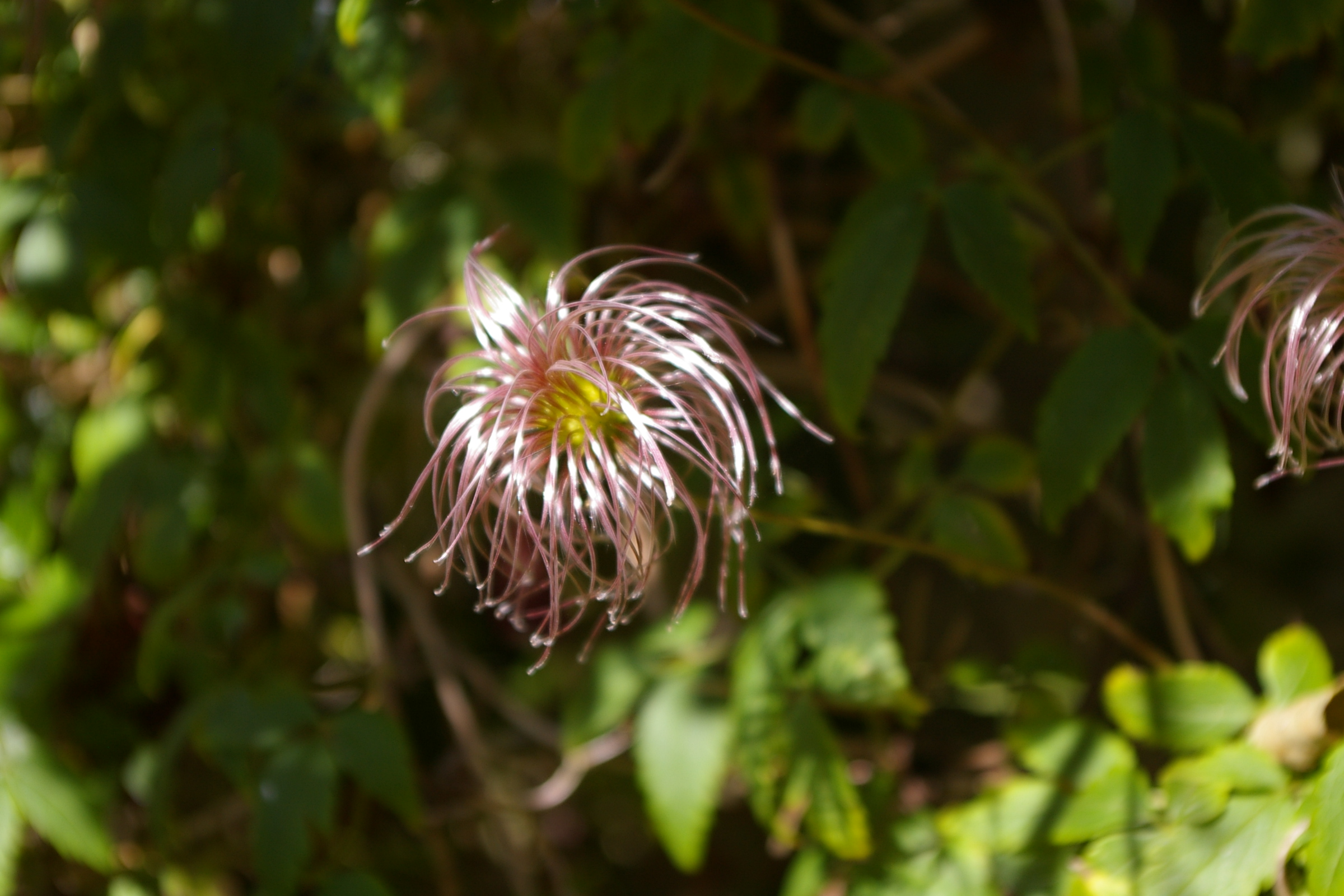 Seed Head of Clematis Macropetala